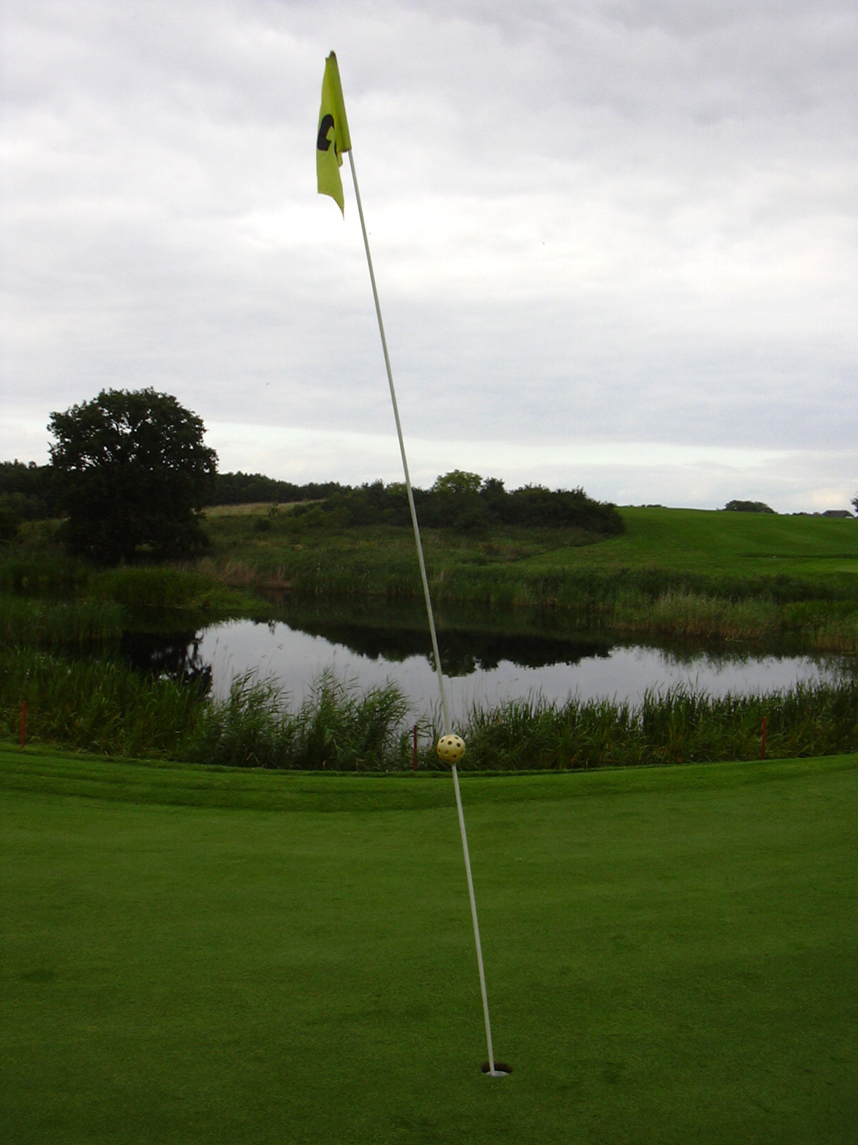 Flagstick and Hole, Green 6, Yellow Course, Balmer See, Usedom, Germany